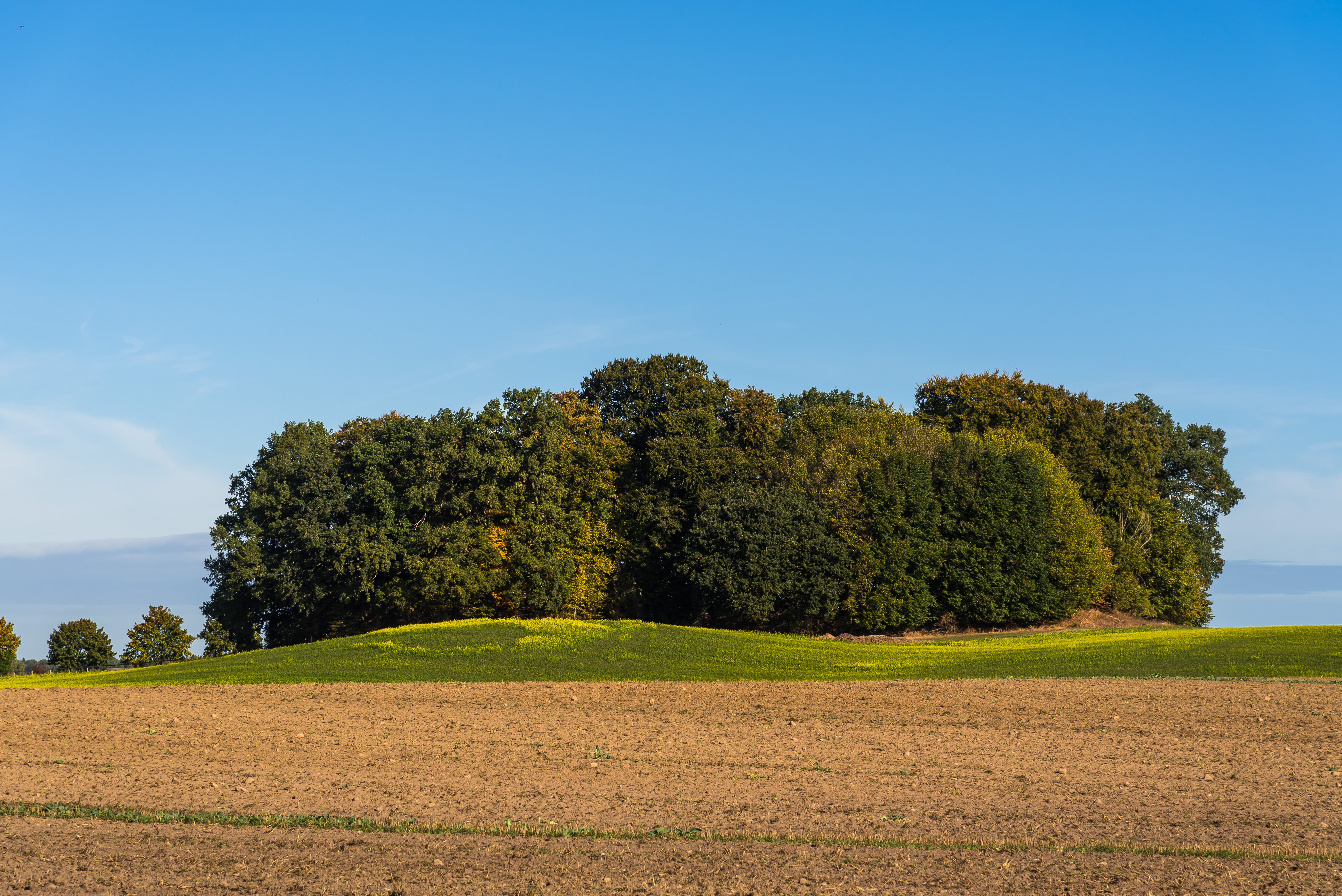 Oldenburger Wall, a Slavic circular rampart in the community of Horst, Herzogtum Lauenburg, Schleswig-Holstein, Germany. These are the remnants of a fortification dating from the 8th century AD, and attributed to the tribe of the Polabians. It is situated on a natural hill, the inner area is a clearing, and on the earthen embankment are trees, forming a conspicuous sight in the landscape. It has an inner diameter of 60 metres.